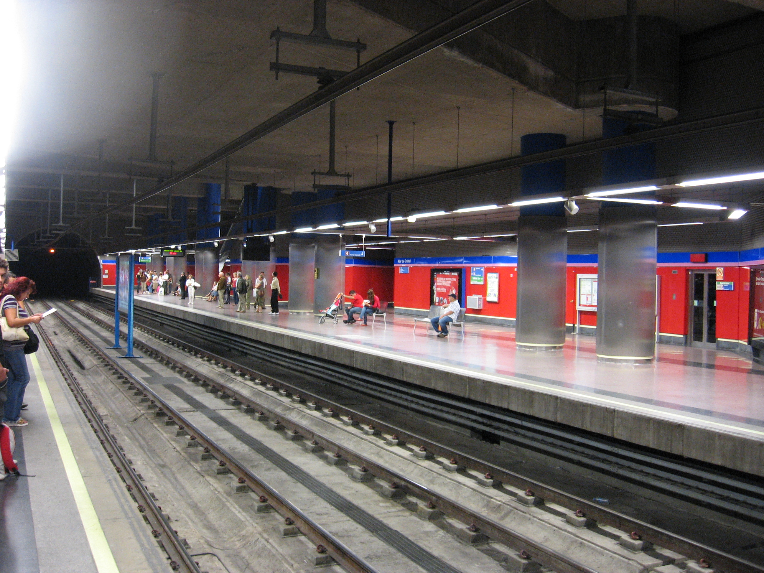 Mar de Cristal